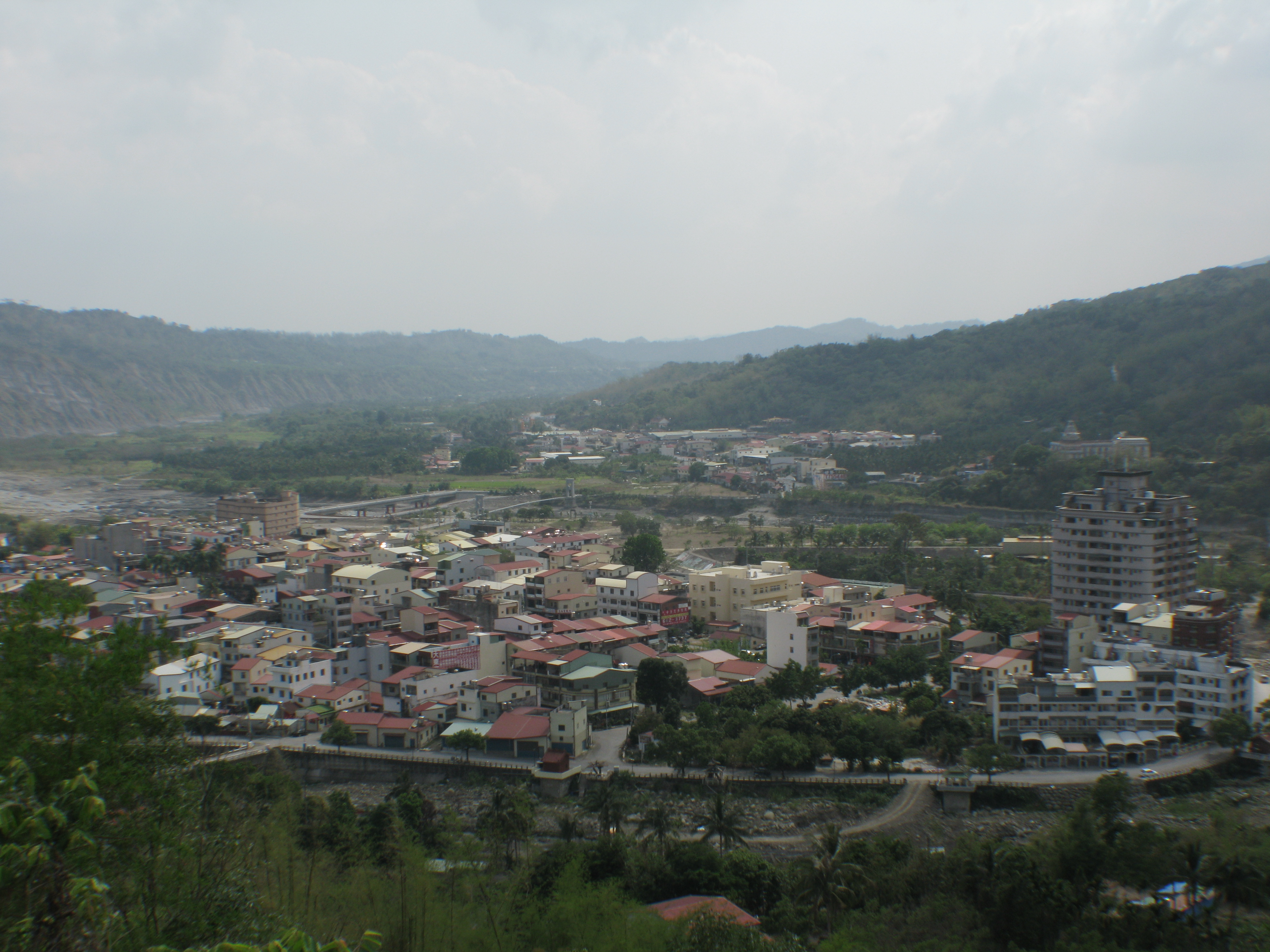 A view of Jiaxian